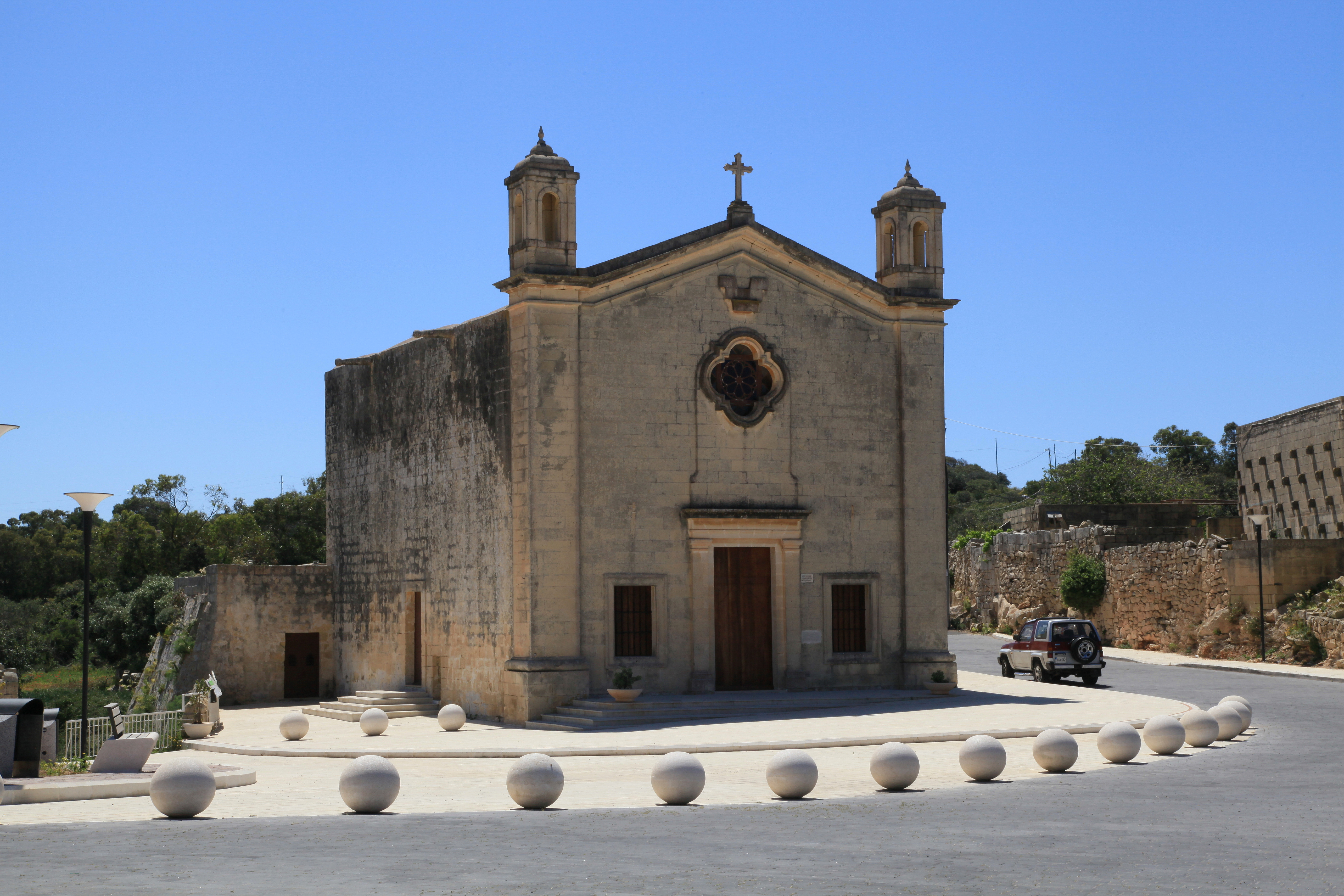 Kappella ta' San Mattew tal-Maqluba at Misraħ tal-Maqluba / Triq Wied iż-Żurrieq in Qrendi, Malta